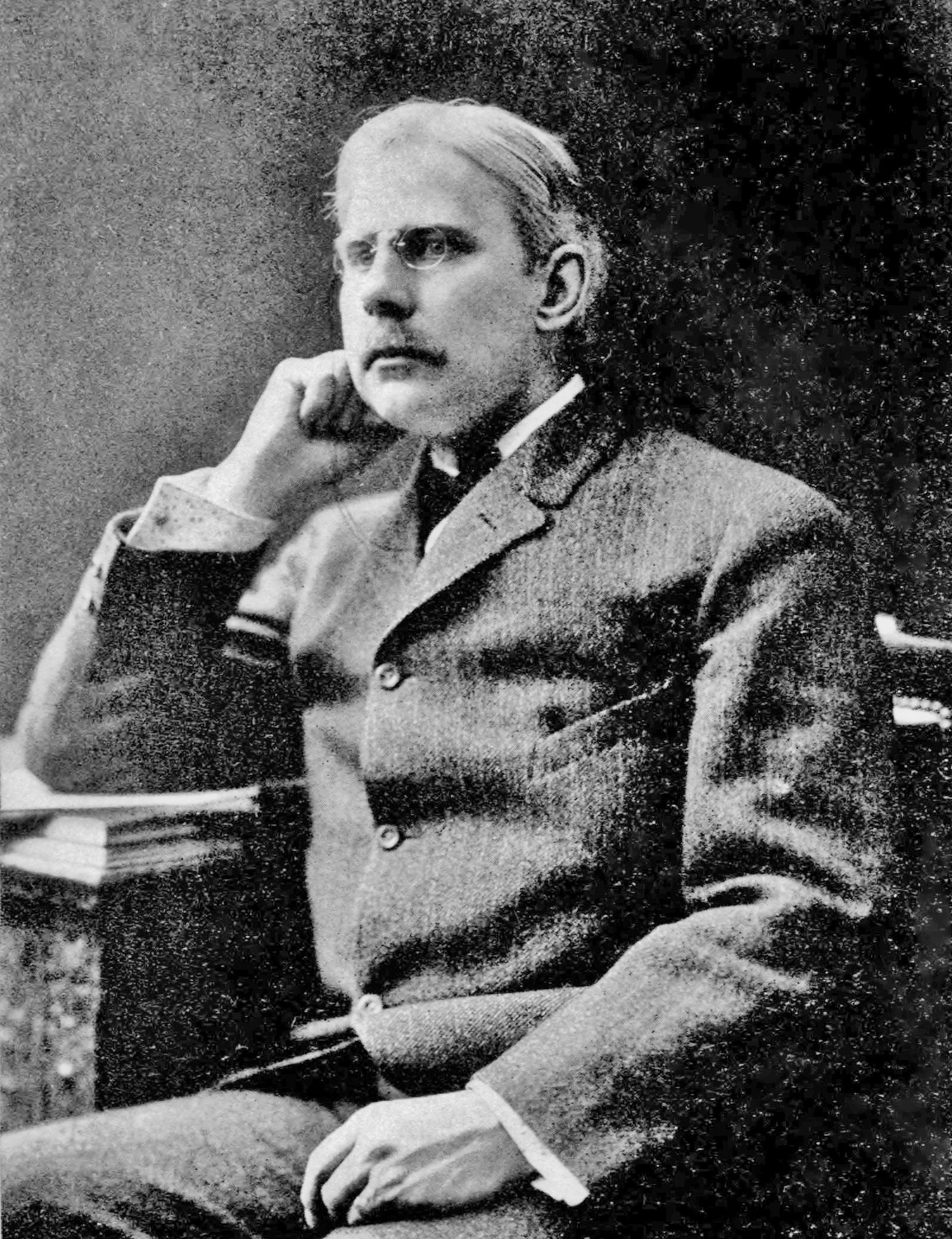 Irving Bacheller